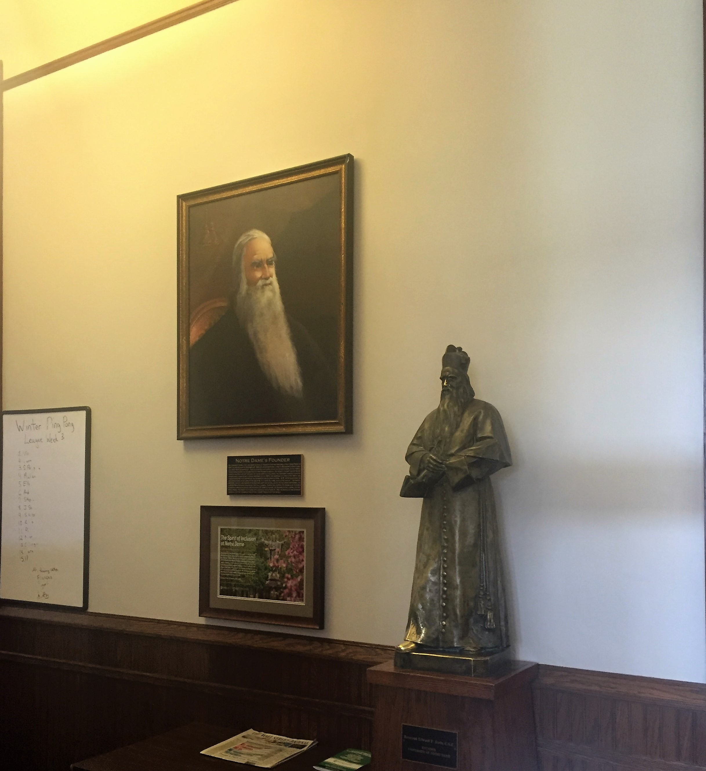 Sorin Hall (University of Notre Dame). Entrance, with the statue and the portrait of Fr. Sorin